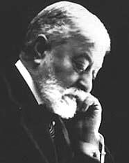 Sir Paolo Tosti (April 9, 1846 – December 2, 1916) was an Italian, later British, composer and music teacher.